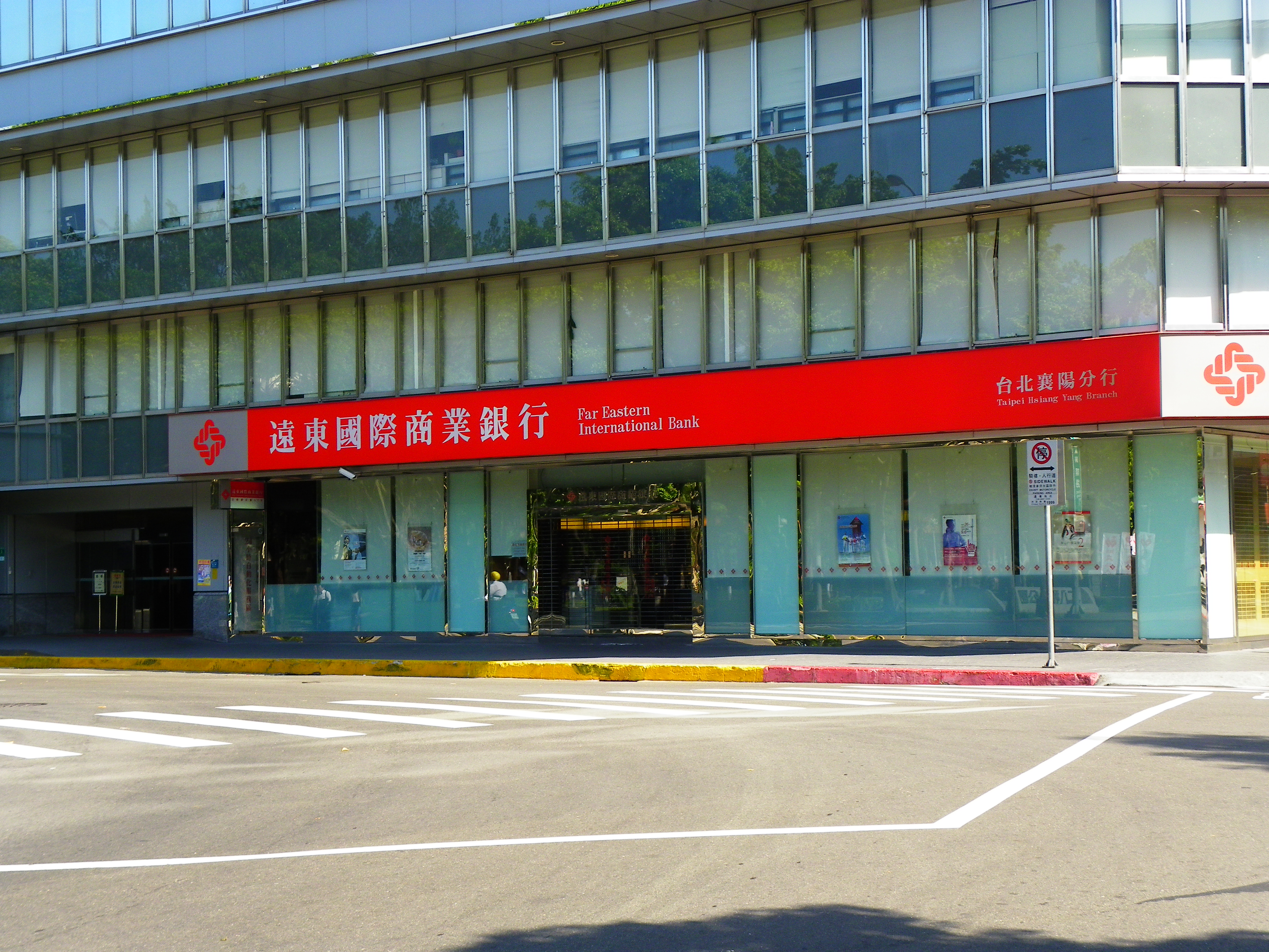 Taipei Hsiang Yang Branch, Far Eastern International Bank.